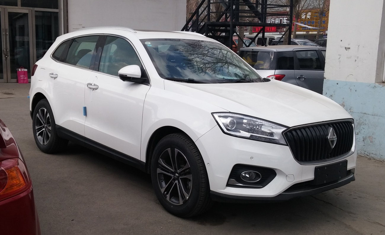 Borgward BX7 photographed in Changchun, Jilin province, China.